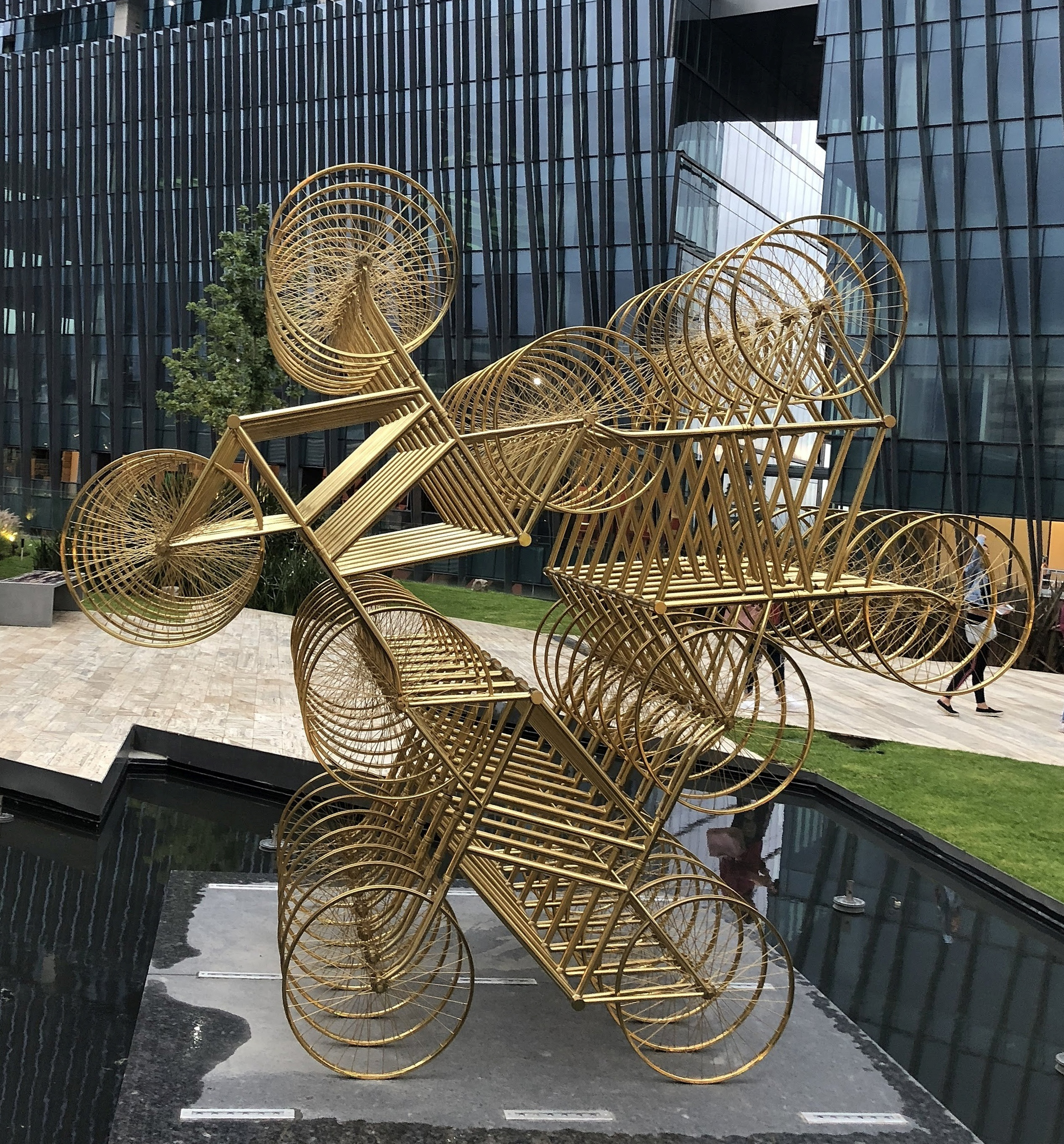 Artz Pedegral